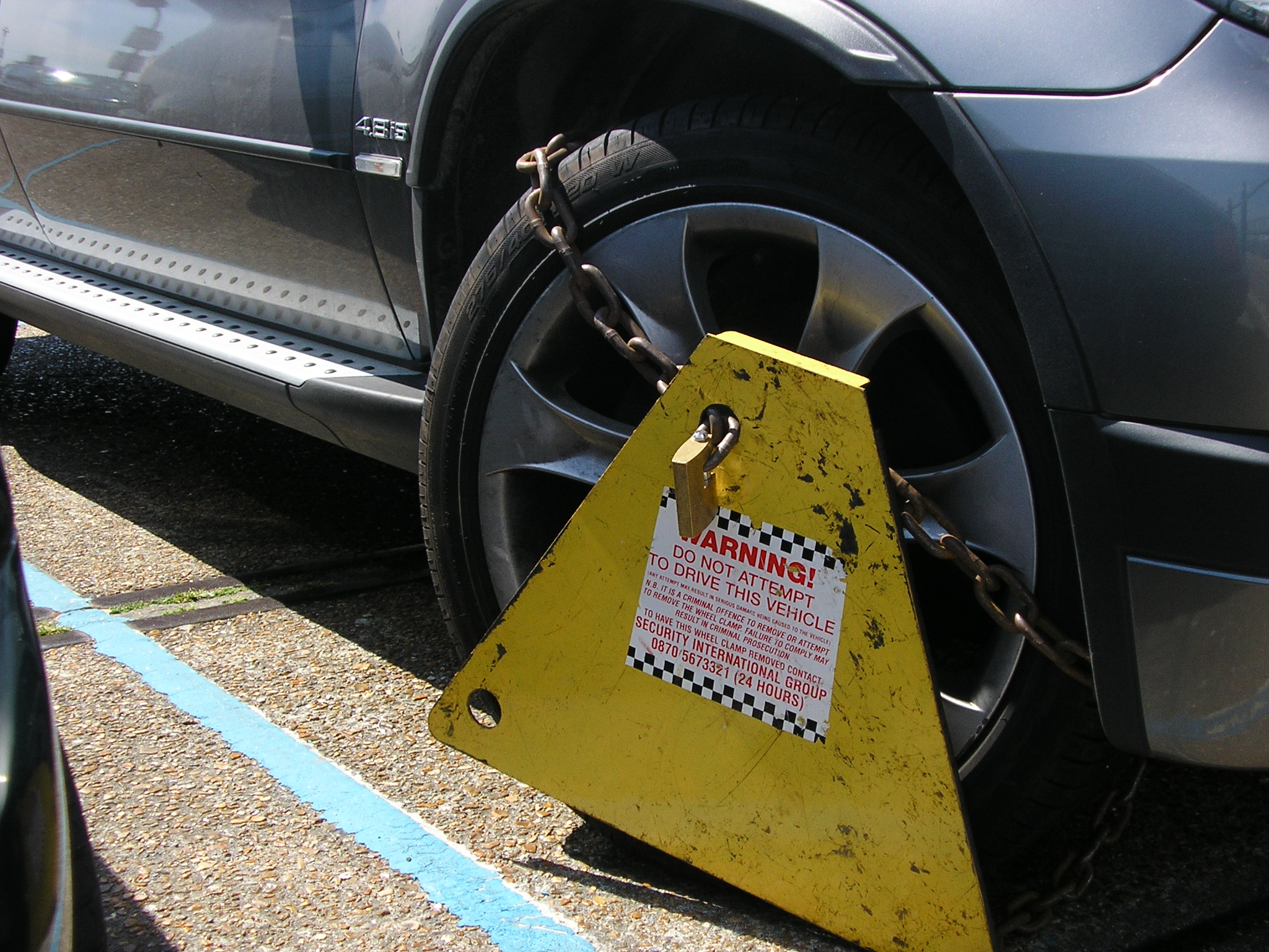 It was such a nice car too. Shame its owners are idiots who don't pay to park.(Assumption)